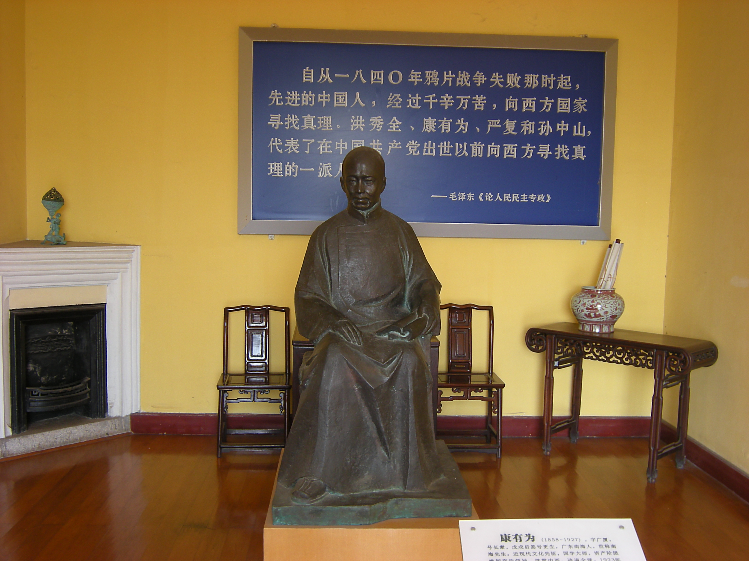 kang youwei statue